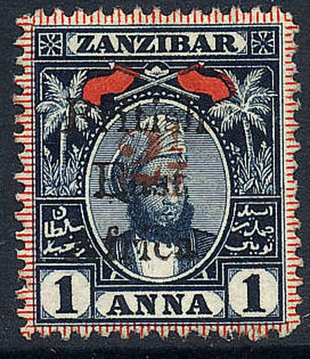 British East Africa postage stamp,overprint on Zanzibar stamp